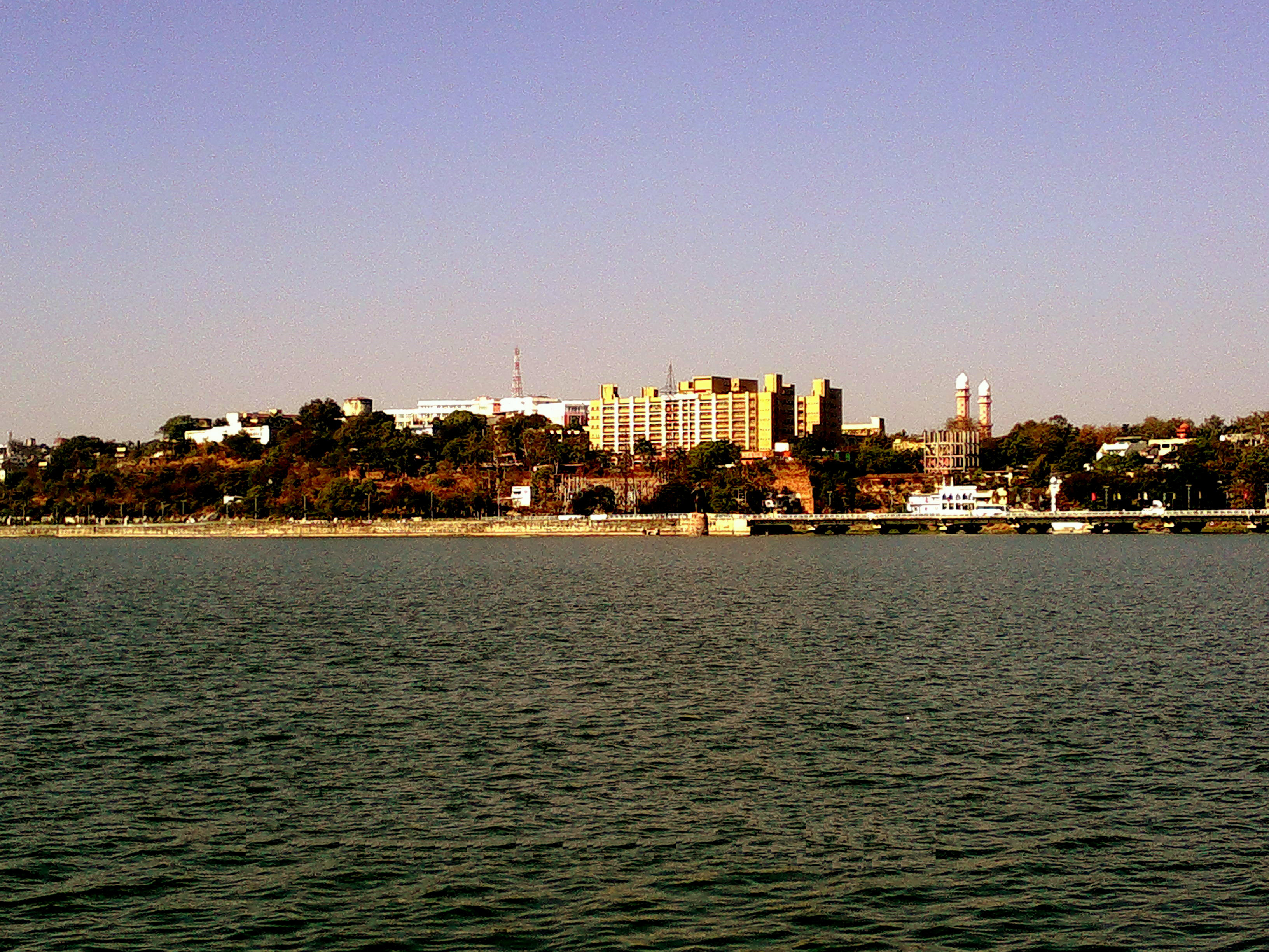 Gandhi Medical College and associated Kamla Nehru Hospital and Hamidia Hospital